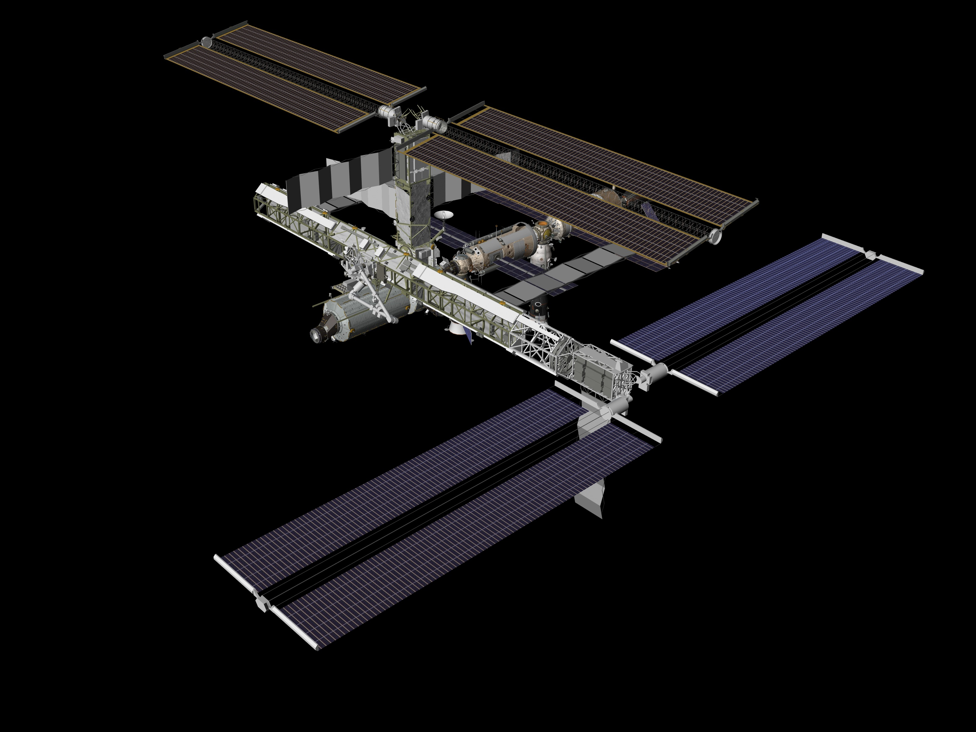 JSC2006-E-38949 (August 2006) --- Computer generated graphic of the International Space Station configuration after STS-115/12A with the addition of the P3/P4 integrated truss segments.